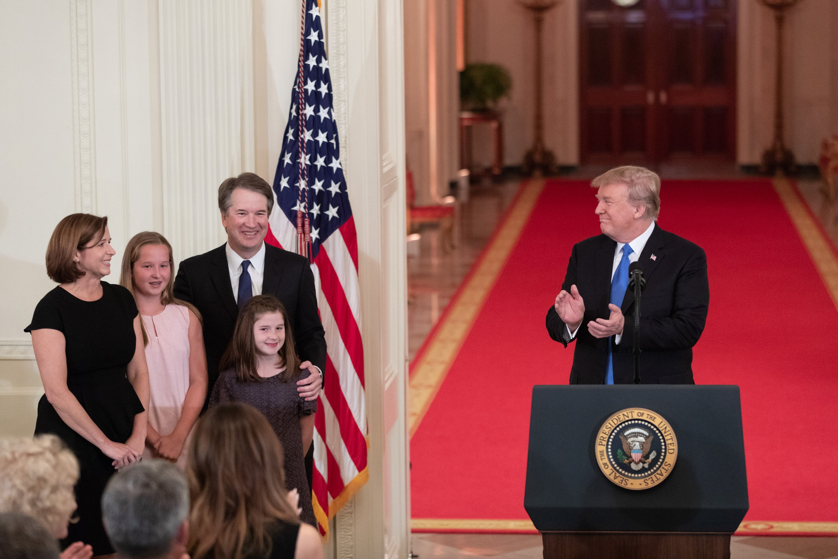 President Trump nominates Judge Brett Kavanaugh for the U.S. Supreme Court.